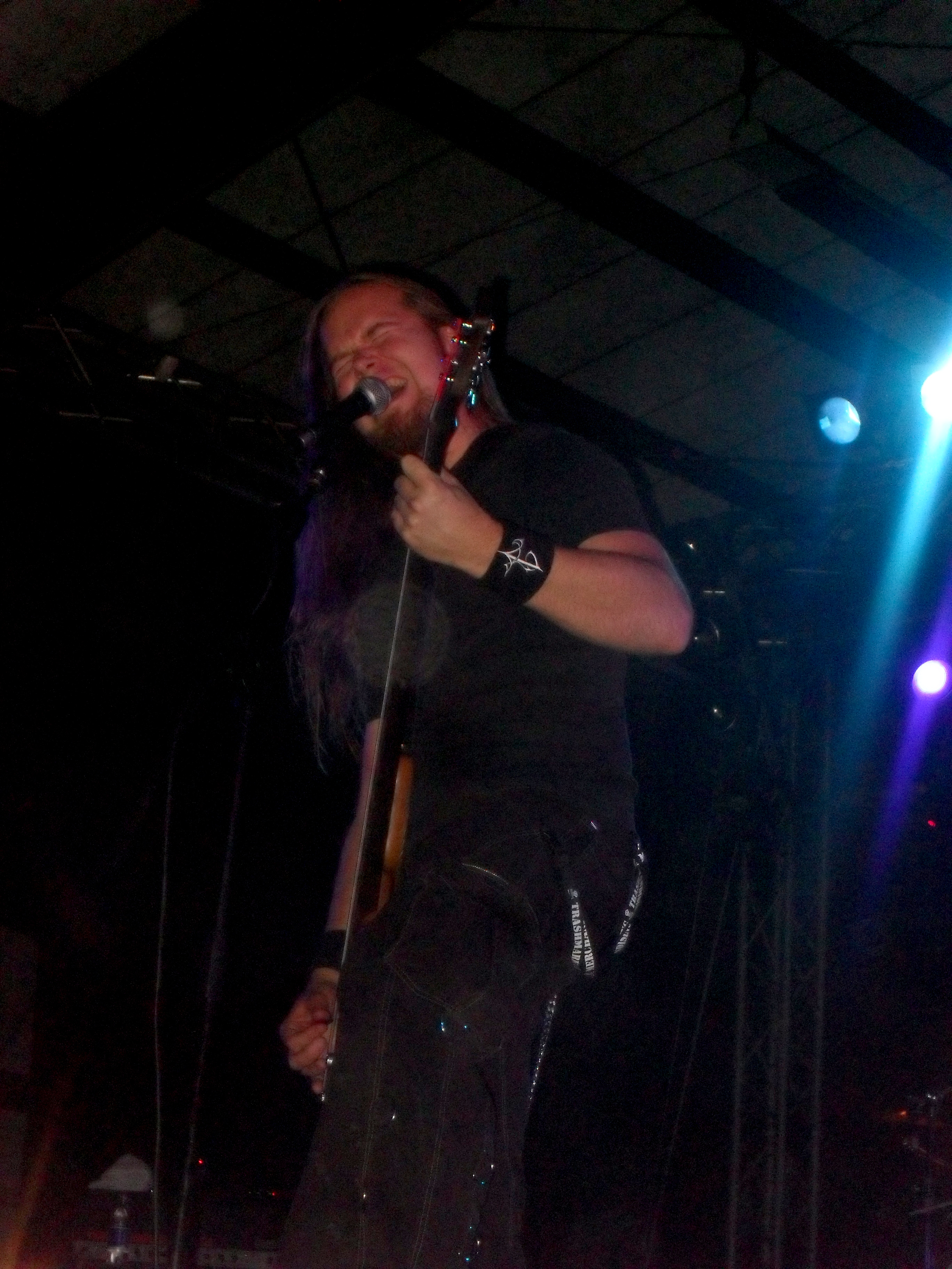 Niilo Sevänen with Insomnium live at Estragon (Dark Tranquillity's Where Death is Most Alive tour II), Bologna 2010